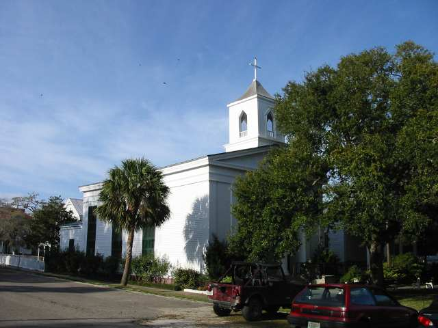 Trinity Episcopal Church, Apalachicola Florida. Photograph by J. Williams (Jan 5, 2004).